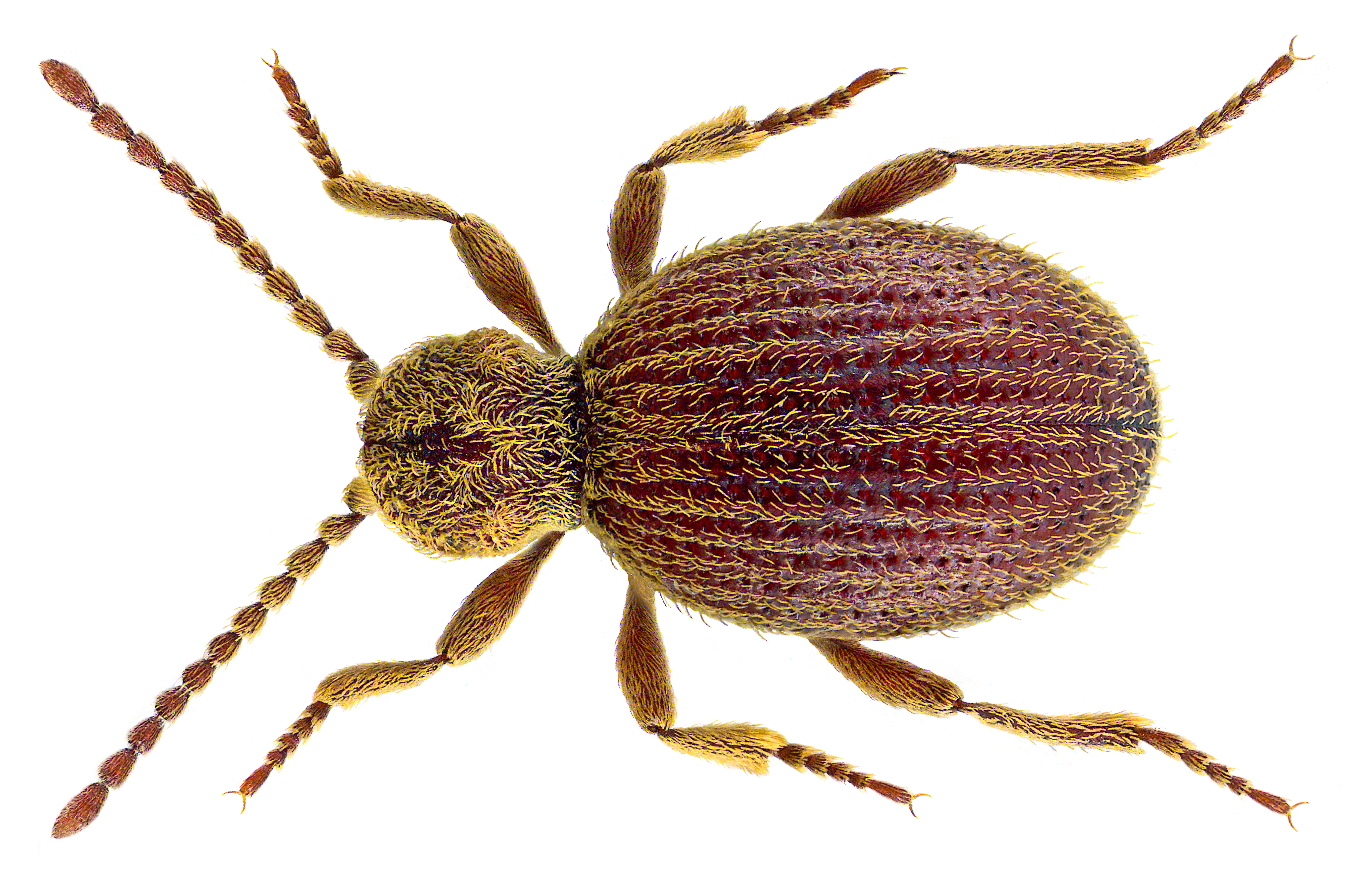 Family: Ptinidae Size: 2.5 mm (1.7 to 3.1 mm) Distribution: Europe without Balkans Ecology: Lives in barns and stables, but also in nests of marmots and mice and in bumble-bees Location: England, Blakenham leg.det. D.Nash, 12.XI.1983 Coll. Oxford University Museum of Natural History Photo: U.Schmidt, 2016